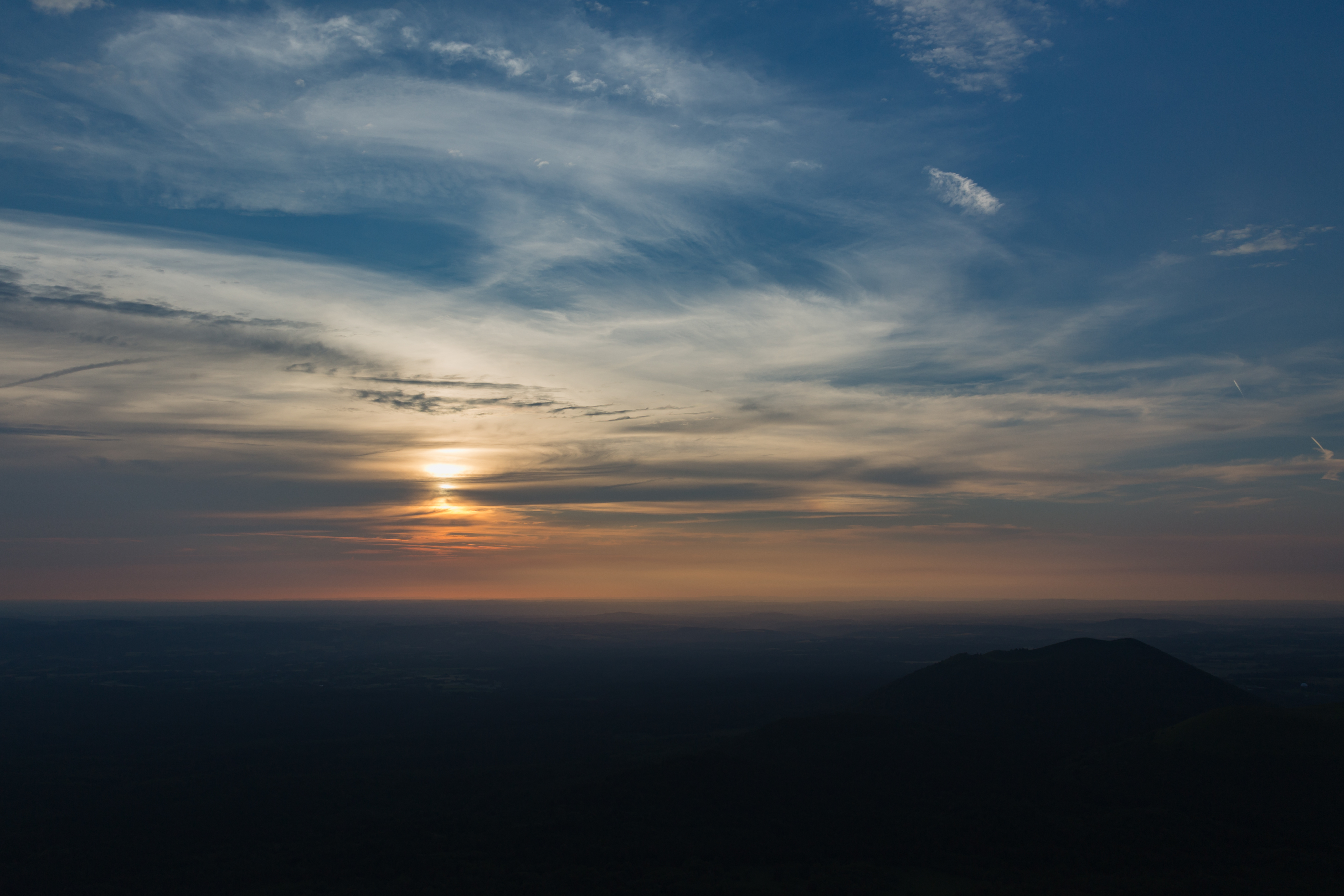 Sunset in Auvergne, from the puy de Dôme, France.